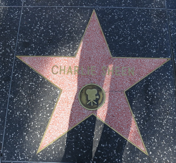 Зведа Чарли Шин на аллее славы